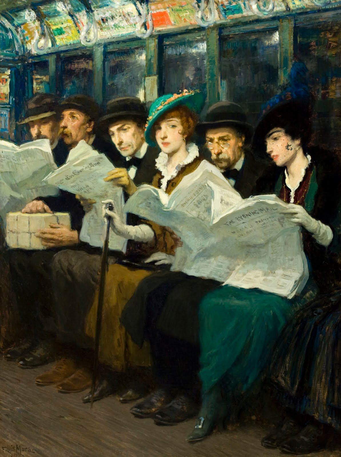 Subway riders in New York City, aka Evening News